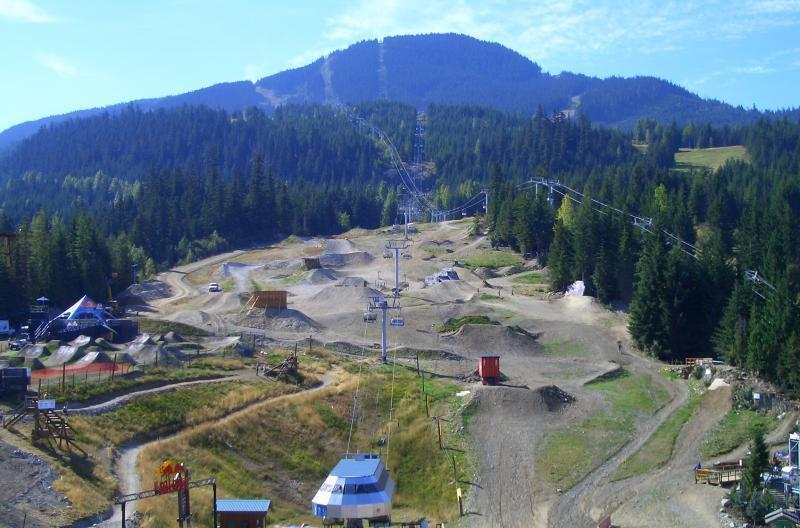 Aerial View of Whistler Mountain Bike Park, Whistler, Canada. Here you can see the lifts and the bottom area of the park, called the "Boneyard"